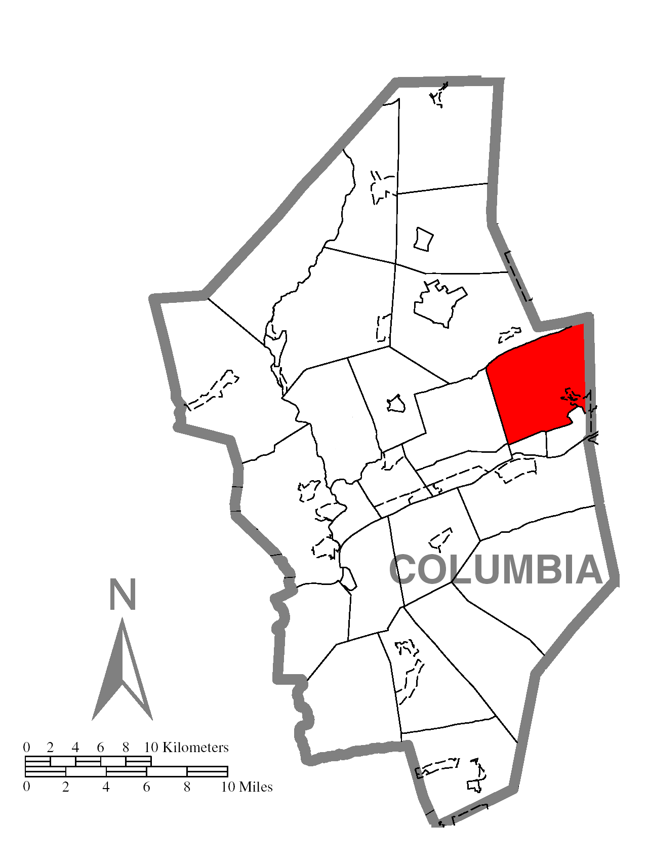 A map of Columbia County showing Briar Creek Township, Pennsylvania (alternate) highlighted on the map.